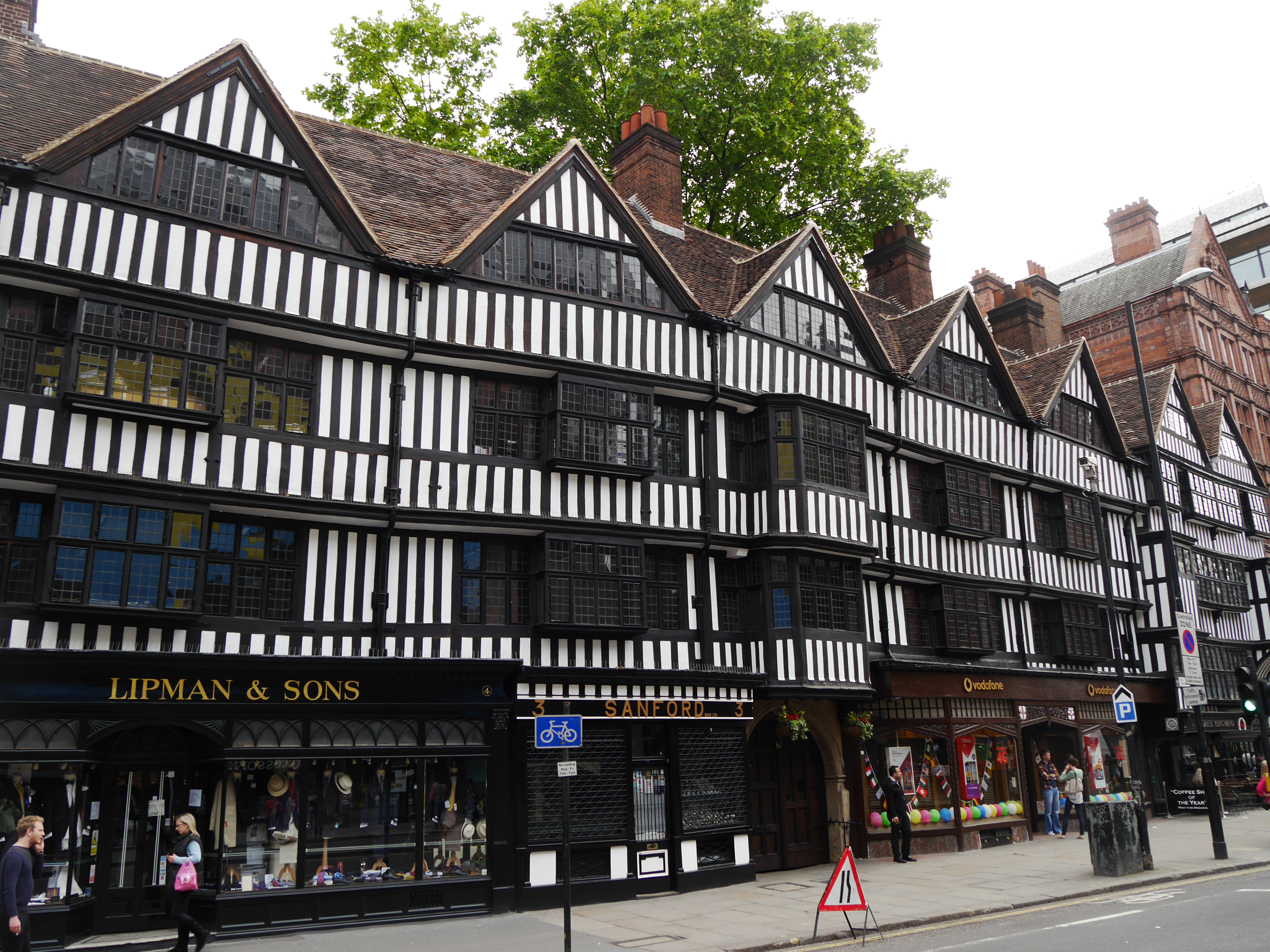 337-338 High Holborn, Staple Inn